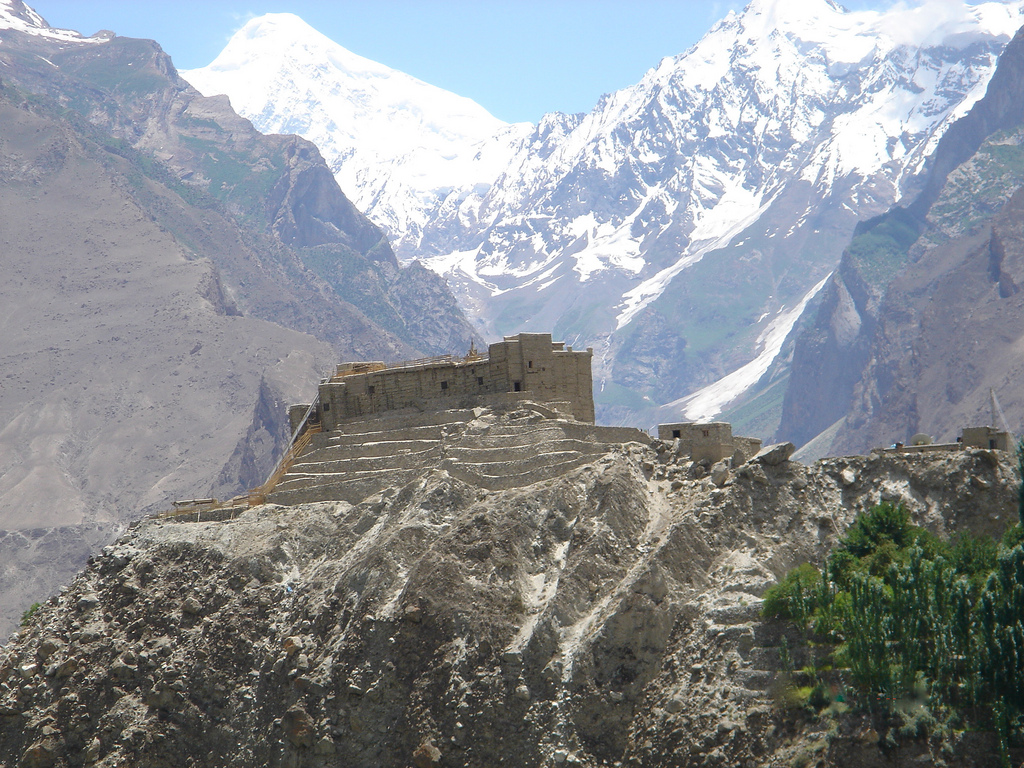 Buildings in Karimabad, Hunza Valley, Gilgit-Baltistan, Pakistan